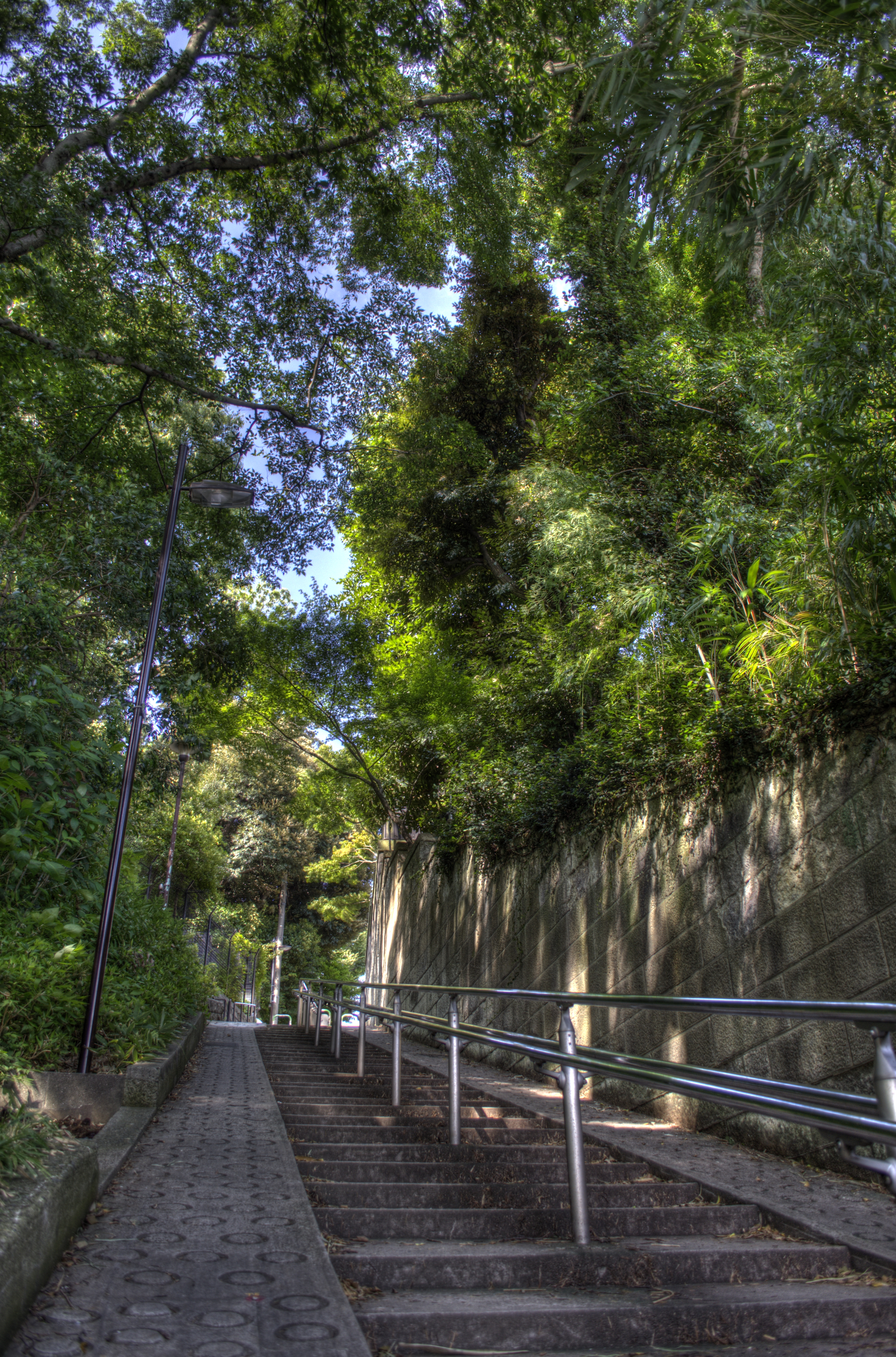 Munatsuki-saka slope at Mejiro, Tokyo, Japan.